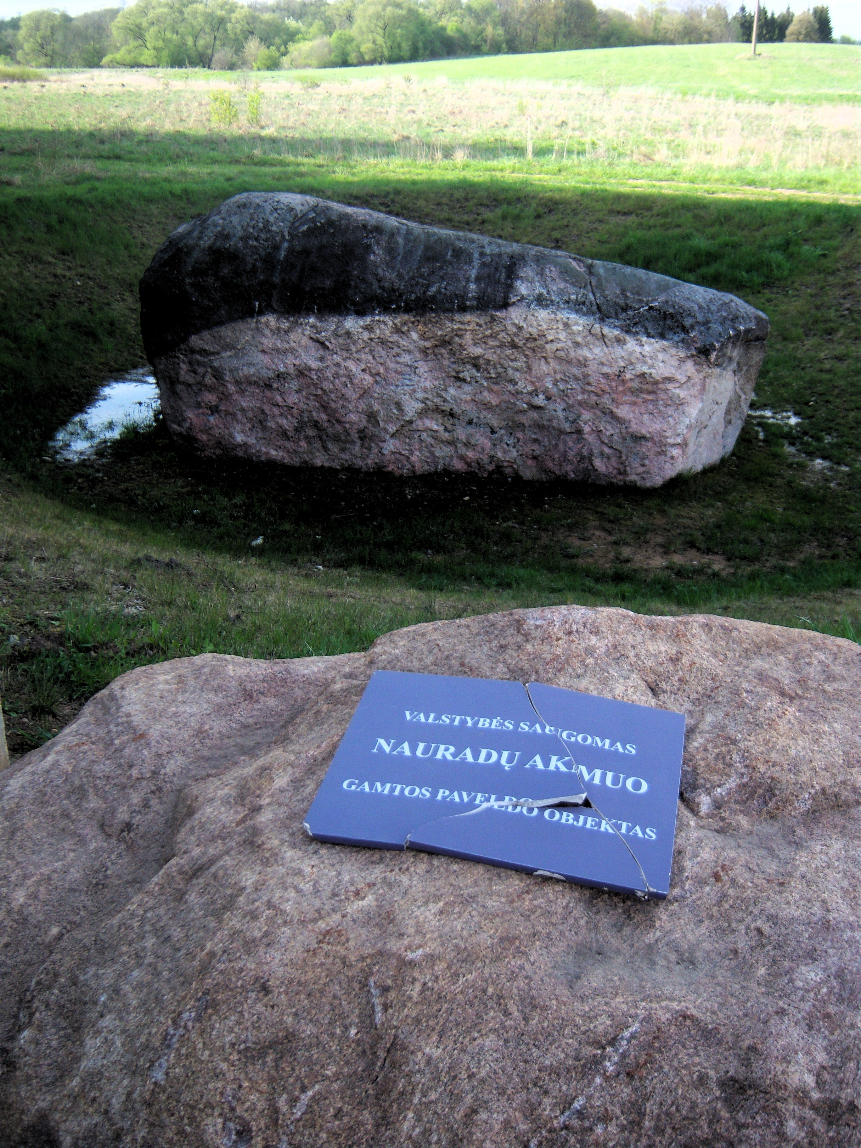 Nauradai Stone, Panevėžys District, Lithuania